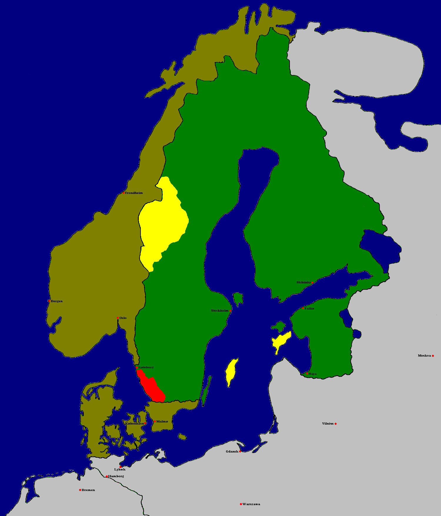 Denmark-Norway in 1646. The Treaty of Brömsebro. In yellow; Denmark ceded the Norwegian provinces of Jemtia and Herdalia and Baltic Sea islands of Gotland and Ösel to Sweden. In red, Hallandia, ceded for a period of 30 years. Created by kasper Holl, 2005.